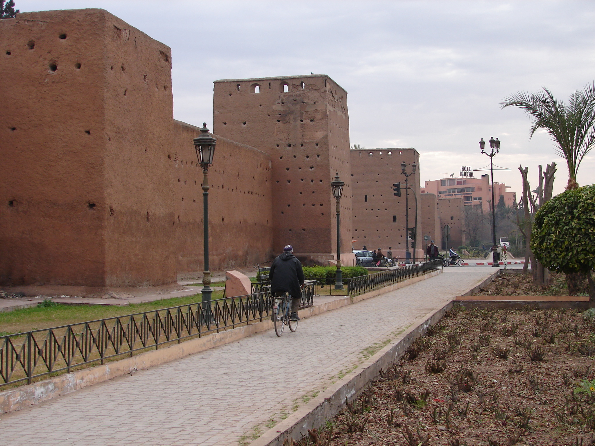 The medieval walls of Marrakech